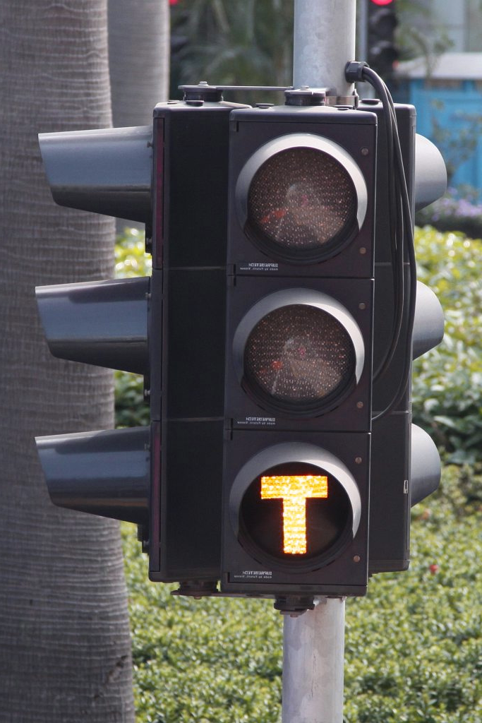 A tram traffic light at a tramway junction in Hong Kong